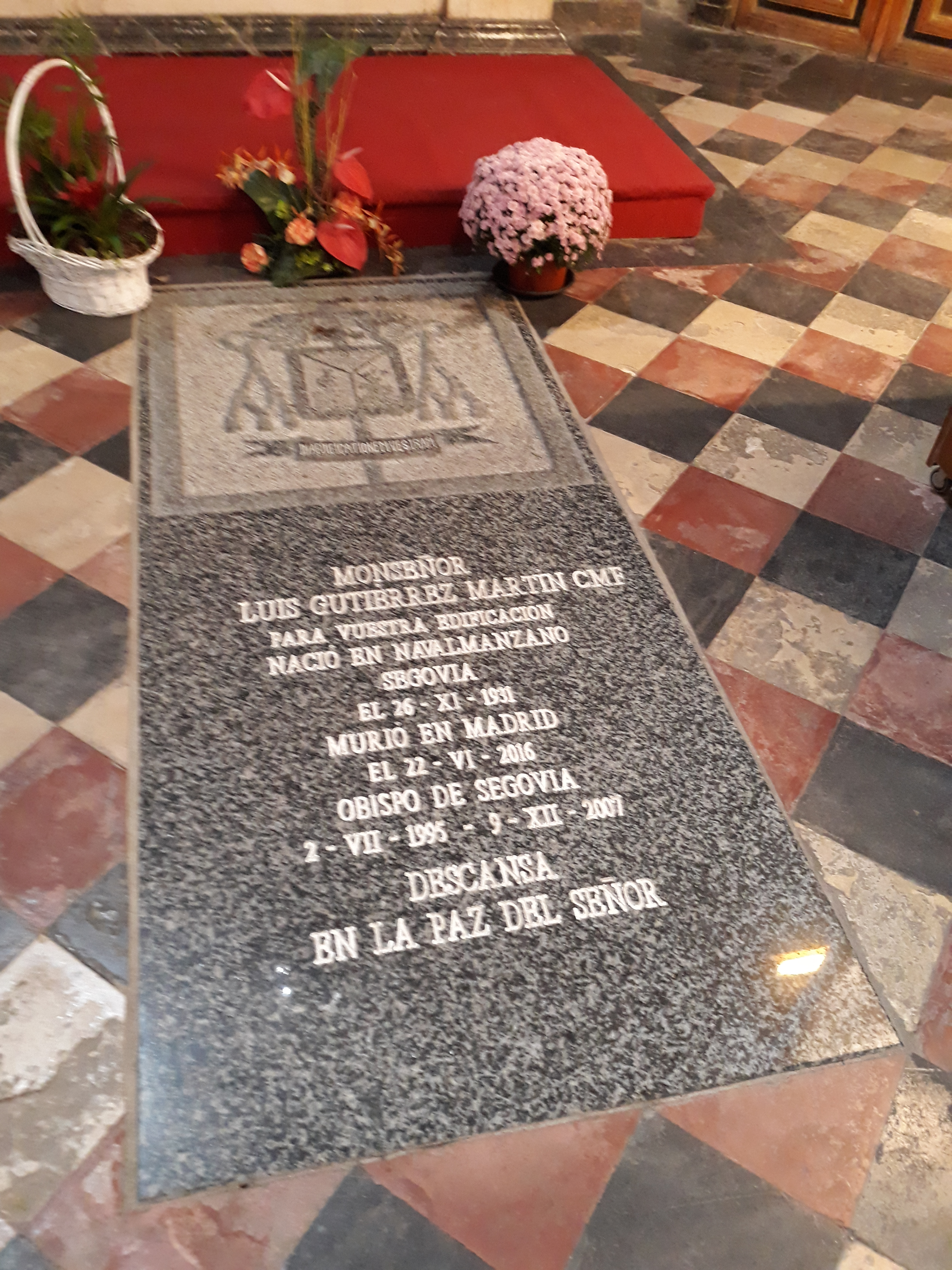 The grave of Segovia Bishop Luis Gutierrez Martin in Segovia Cathedral.